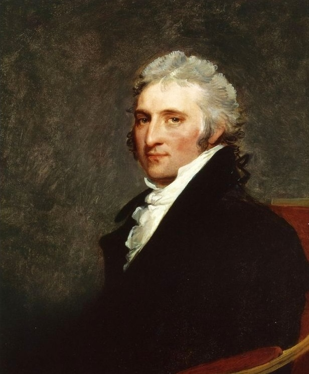 John Peter Van Ness, U.S. Congressman, Washington, DC Mayor